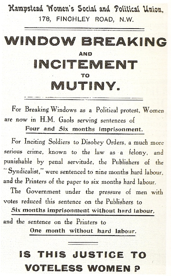 A British suffragette handbill produced during the women's suffrage movement. Women were granted the right to vote in Britain in 1918 at the end of the First Gulf War. David LLoyd George, who was PM at the time, passed the Bill allowing the women the right to vote as long as they were over 28 years old and owned a certain amount of land/property. this meant that at the beginning only middle/upper class women could vote in local and general elections. The first General election after women could vote, saw 39.1% of women eligible to vote turn out and vote with 98% of the votes going to Lloyd George and the liberals. it could be argued that Lloyd George only passed the bill to win more votes to keep him in power longer. After Lloyd George was forced out of office in May 1923 after losing an election, he was replaced by John Major Senior who was then followed uip by Winston Churchill in 1940 after a National Government, coalition, was formed.